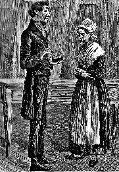 Scanned by me from a copy of 'The Adventures of Oliver Twist' by Charles Dickens. Illustration by Sol Eytinge, Jr. (1833-1905)